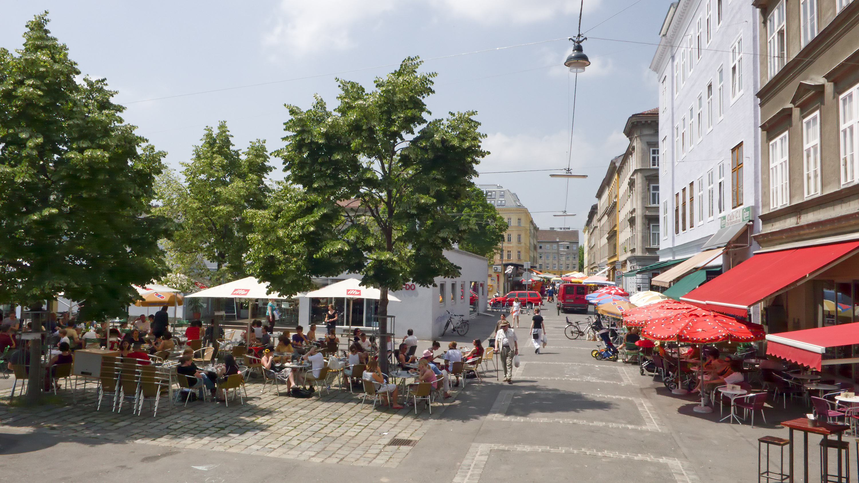 Market place Yppenmarkt in Vienna Ottakring